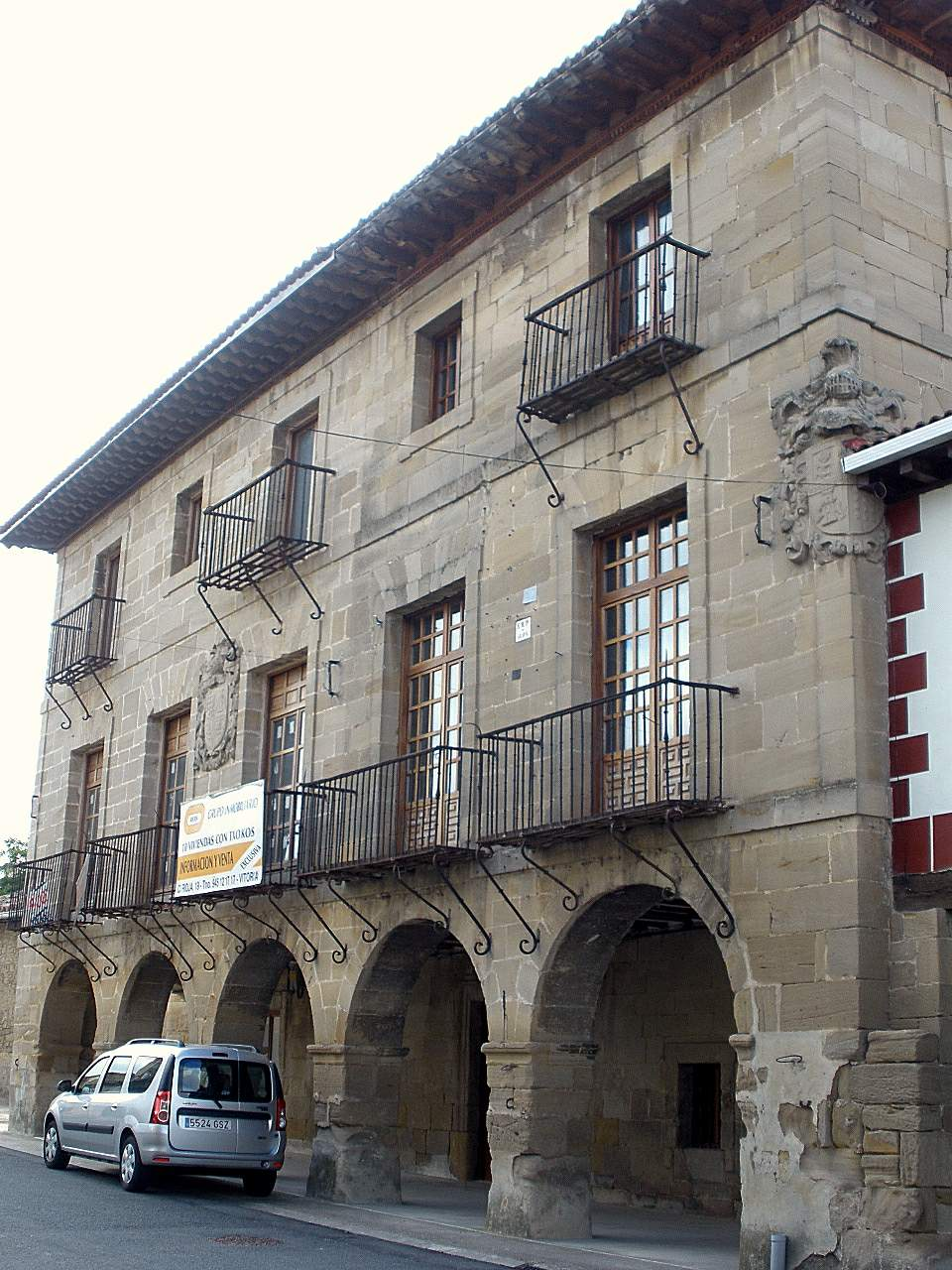 Palacio del Marqués de Terán, Armiñón, Álava